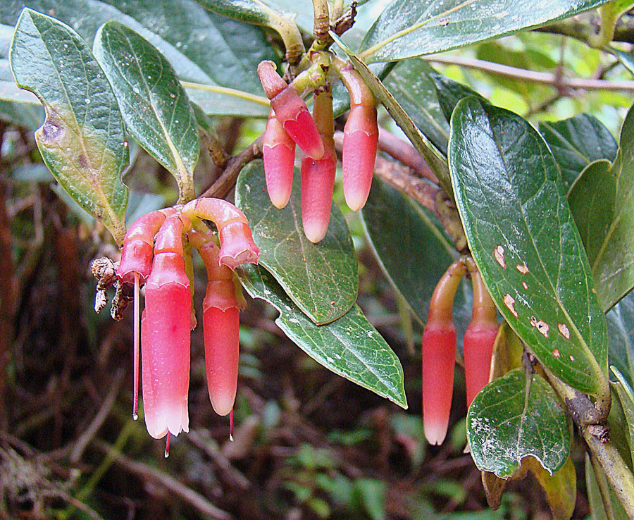 Also known as Uva Camarona for its red fruit. Found in the mountains from Nicaragua to Bolivia. Photo from Volcan Baru, Panama. In context at